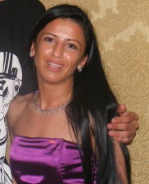 Asiye Özlem Şahin after her fight against Oksana Romanova (UKR) in Istanbul